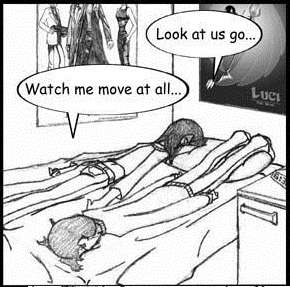 A picture of Jack and Lily being lazy